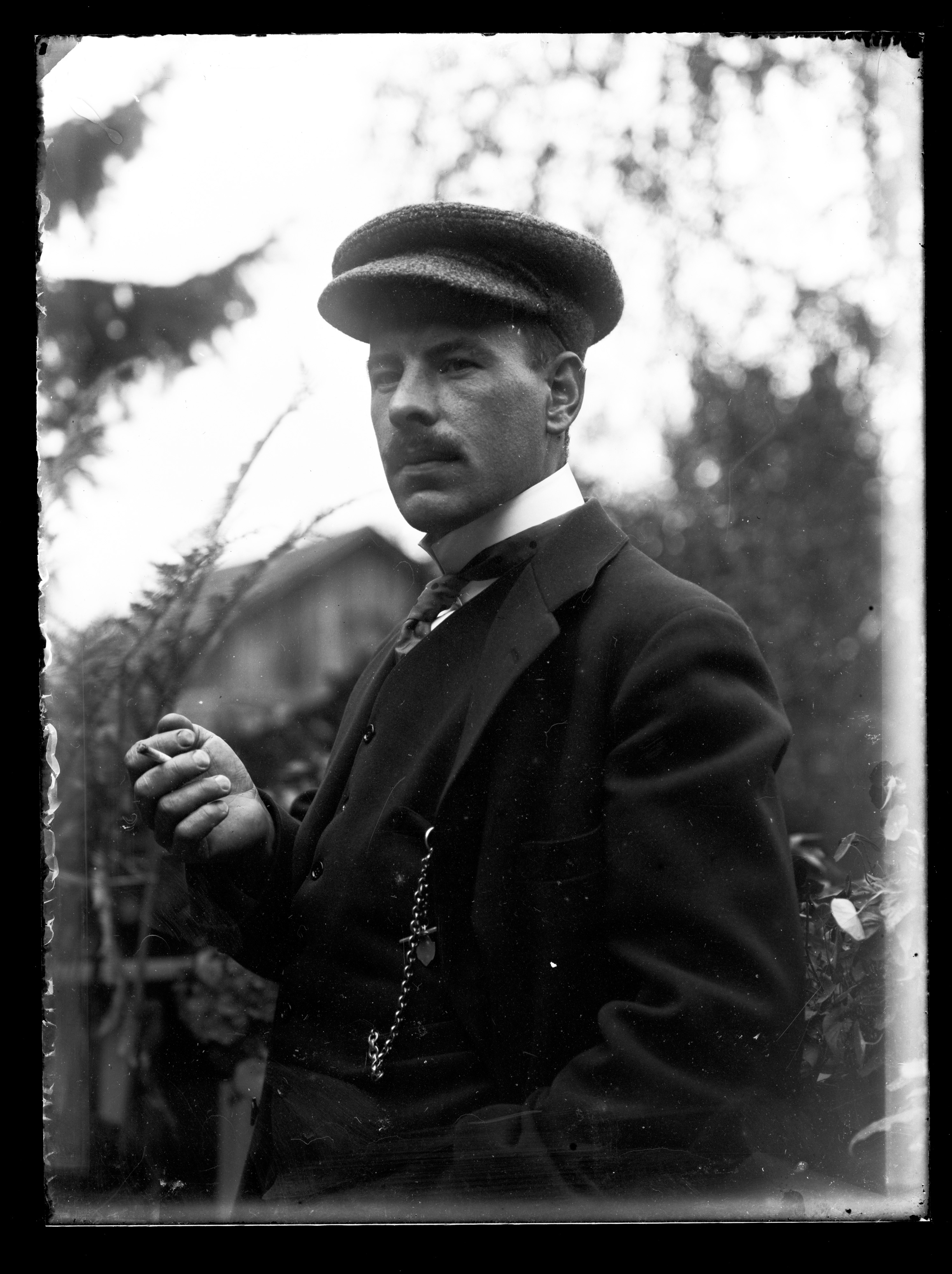 Photographer Bernhard Åström 1911